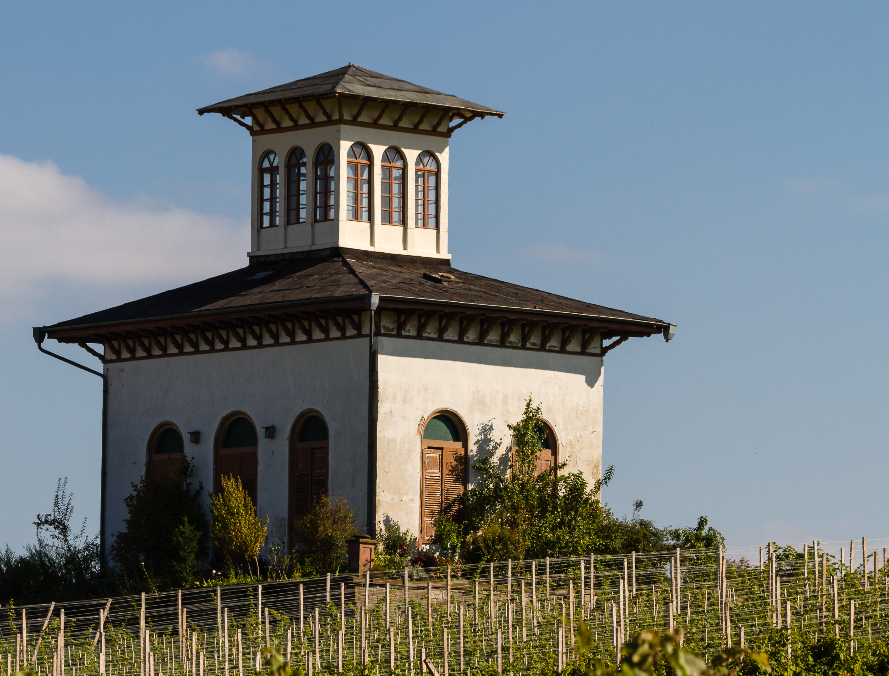 tea pavillion